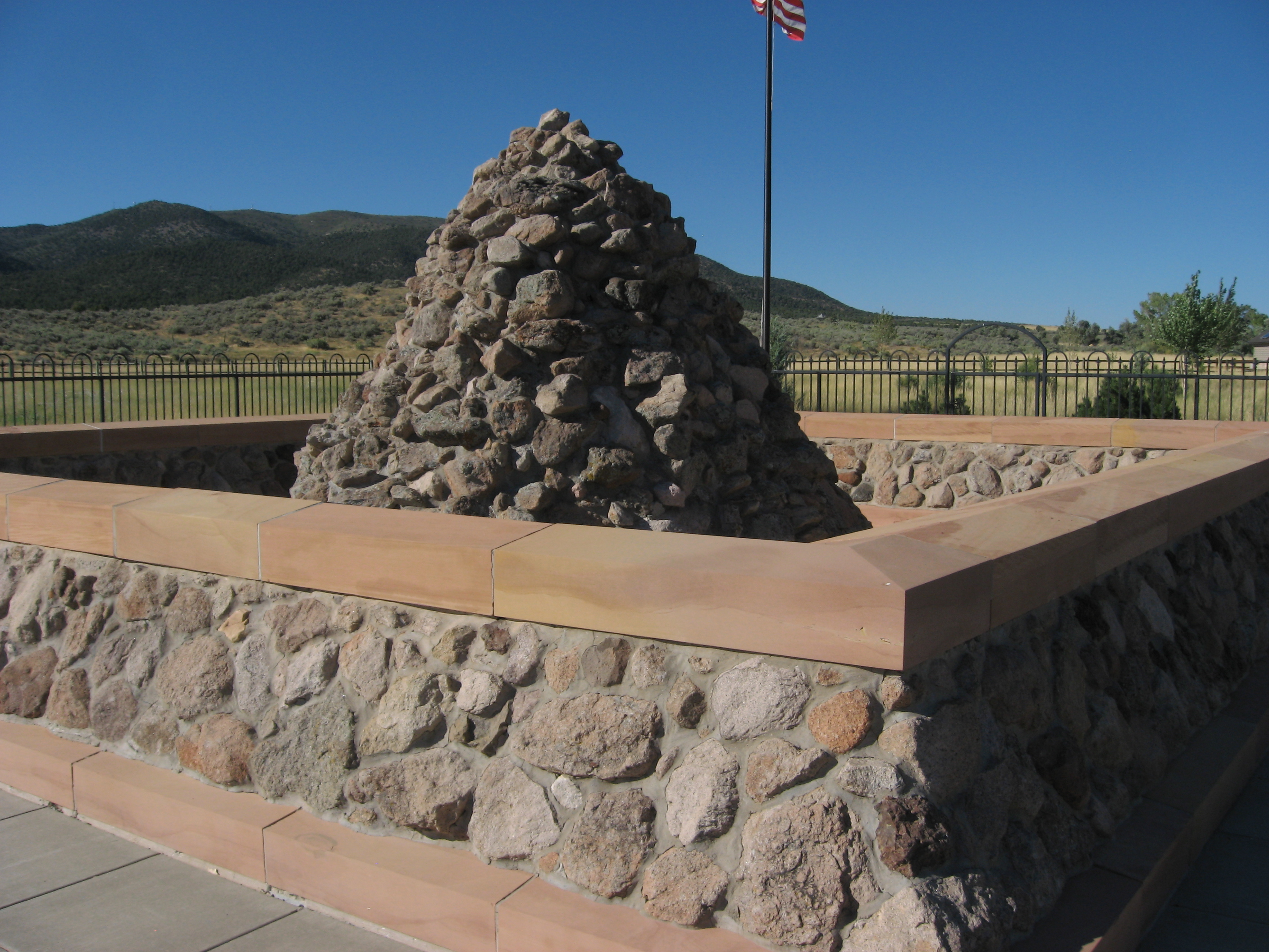 Mountain Meadows grave site memorial, Utah